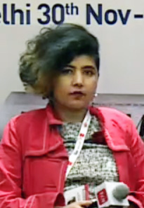 Meenakshi Reddy Madhavan (Indian blogger and writer), in Times Lit Fest: Women in mythology Redefining desire